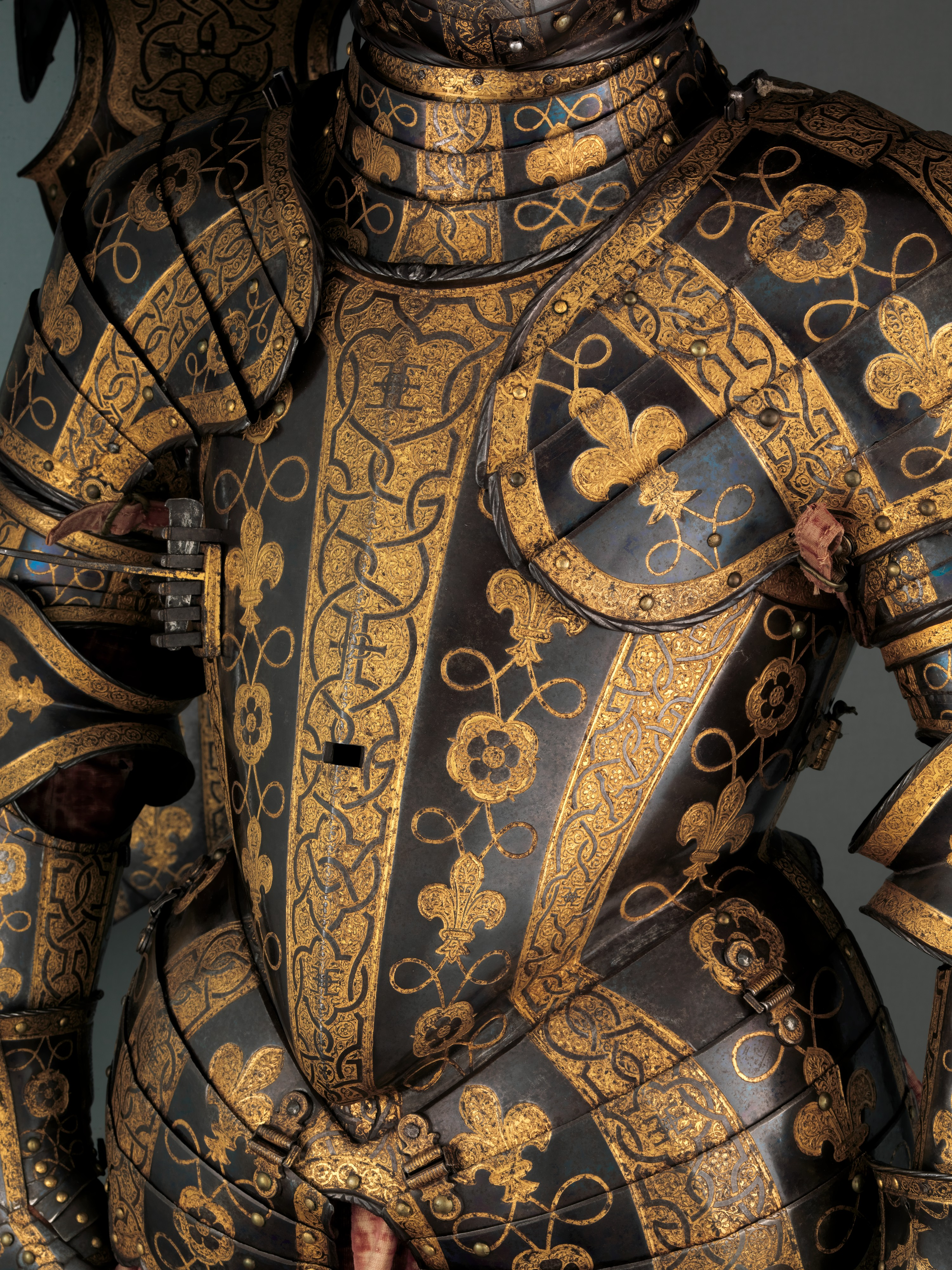 Armor garniture; British, Greenwich; Armor for Man